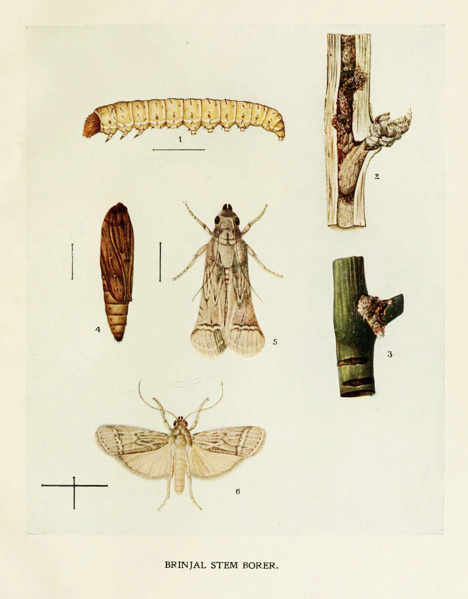 Picture from book Indian Insect Life: a Manual of the Insects of the Plains by Harold Maxwell-Lefroy.